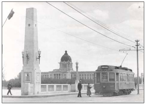 Streetcar on the Albert Street Bridge, looking south towards the Saskatchewan Legislative Building. Regina, Saskatchewan, Canada.